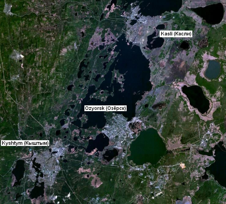 Satellite image of the cities Kasli, Ozyorsk and Kyshtym in Chelyabinsk Oblast near the Mayak complex.